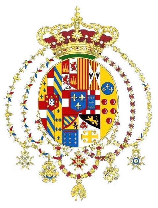 Coat of Arms of the Kingdom of the Two Sicilies.